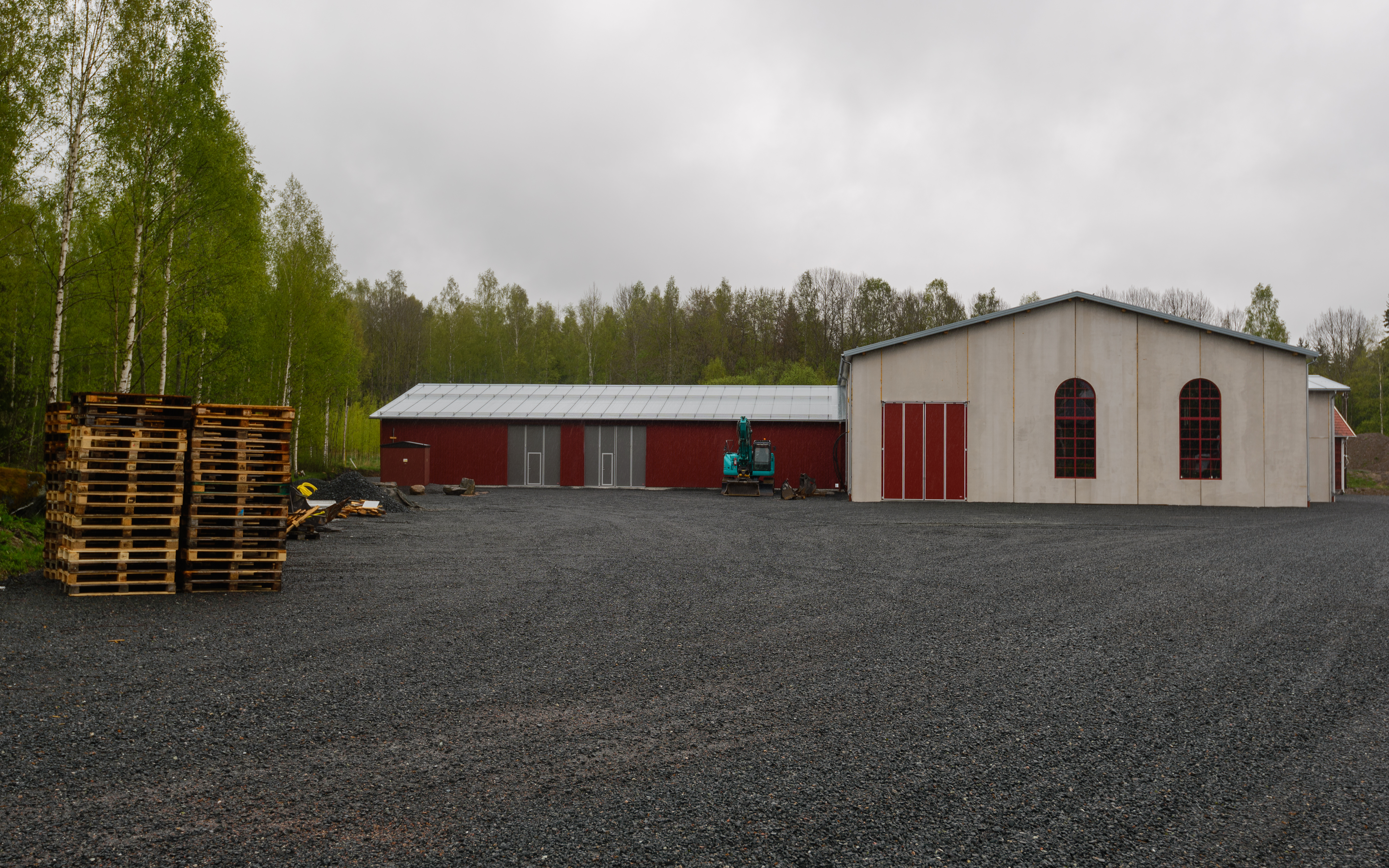 New building for Oppigård brewery in Ingvallsbenning, Hedemora Municipality, Sweden.